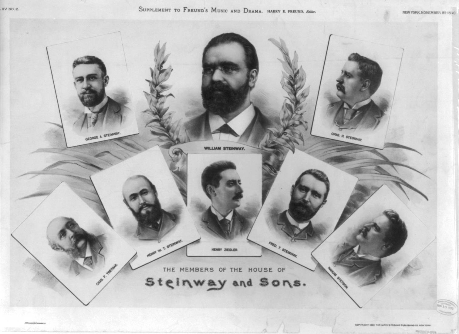 Caption: "The members of the house of Steinway and Sons."